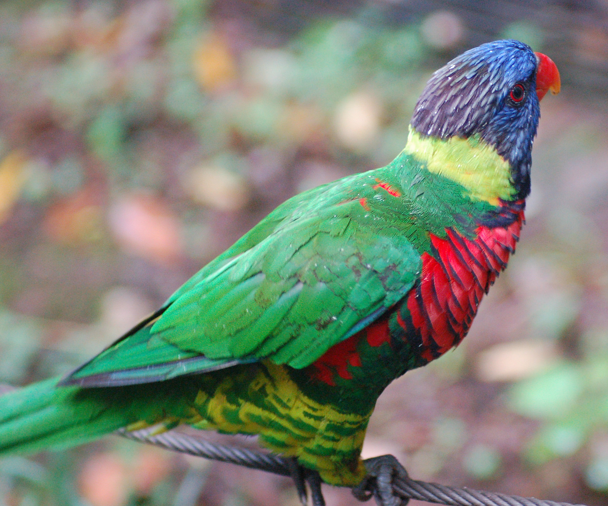 A photograph of a lorikeet (Trichoglossus en sp.). Photo taken at the Philadelphia Zoo.